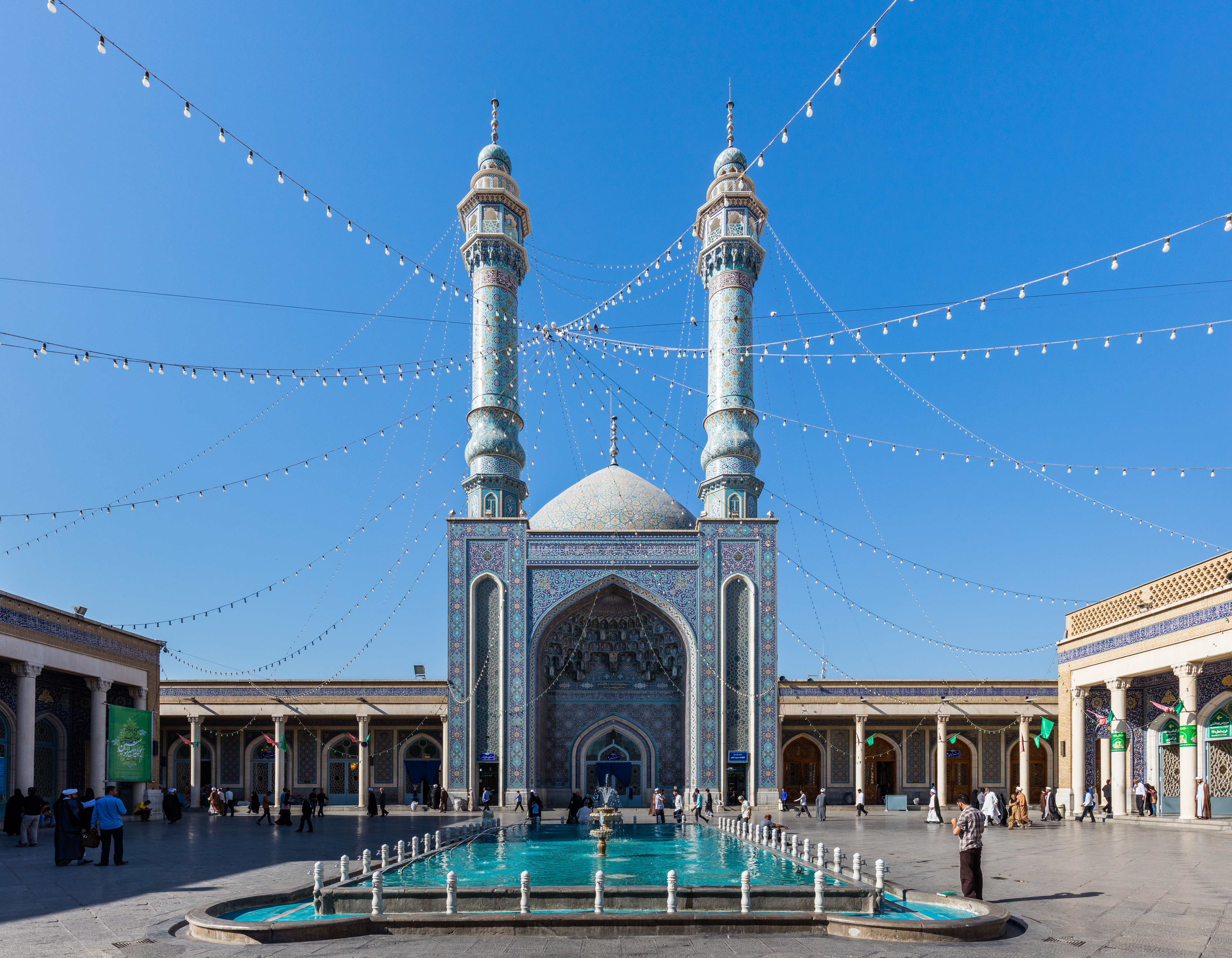 Fatimah Ma'sumah Shrine, Qom, Iran